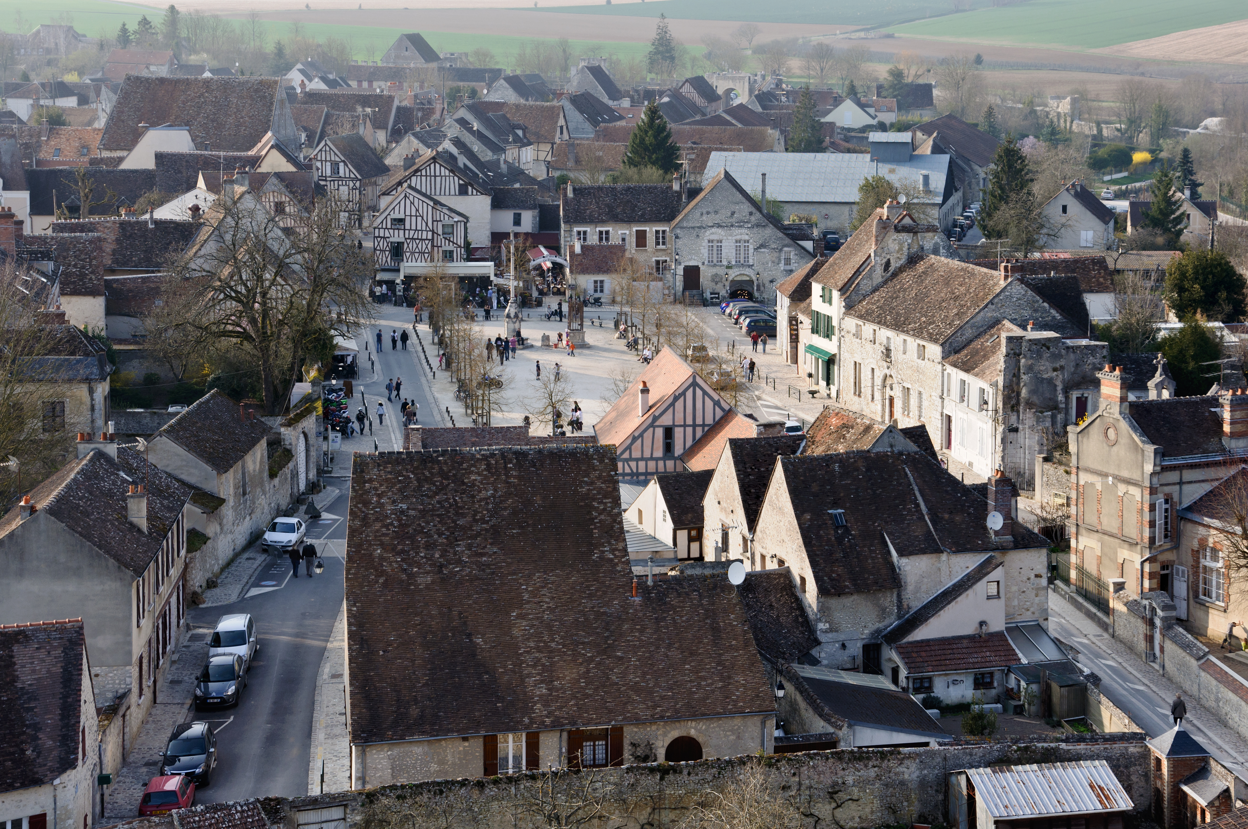 Provins, Seine-et-Marne, France: the Upper Town (ville haute) with the Place du Châtel in its center, seen from the Tour César (Caesar Tower).